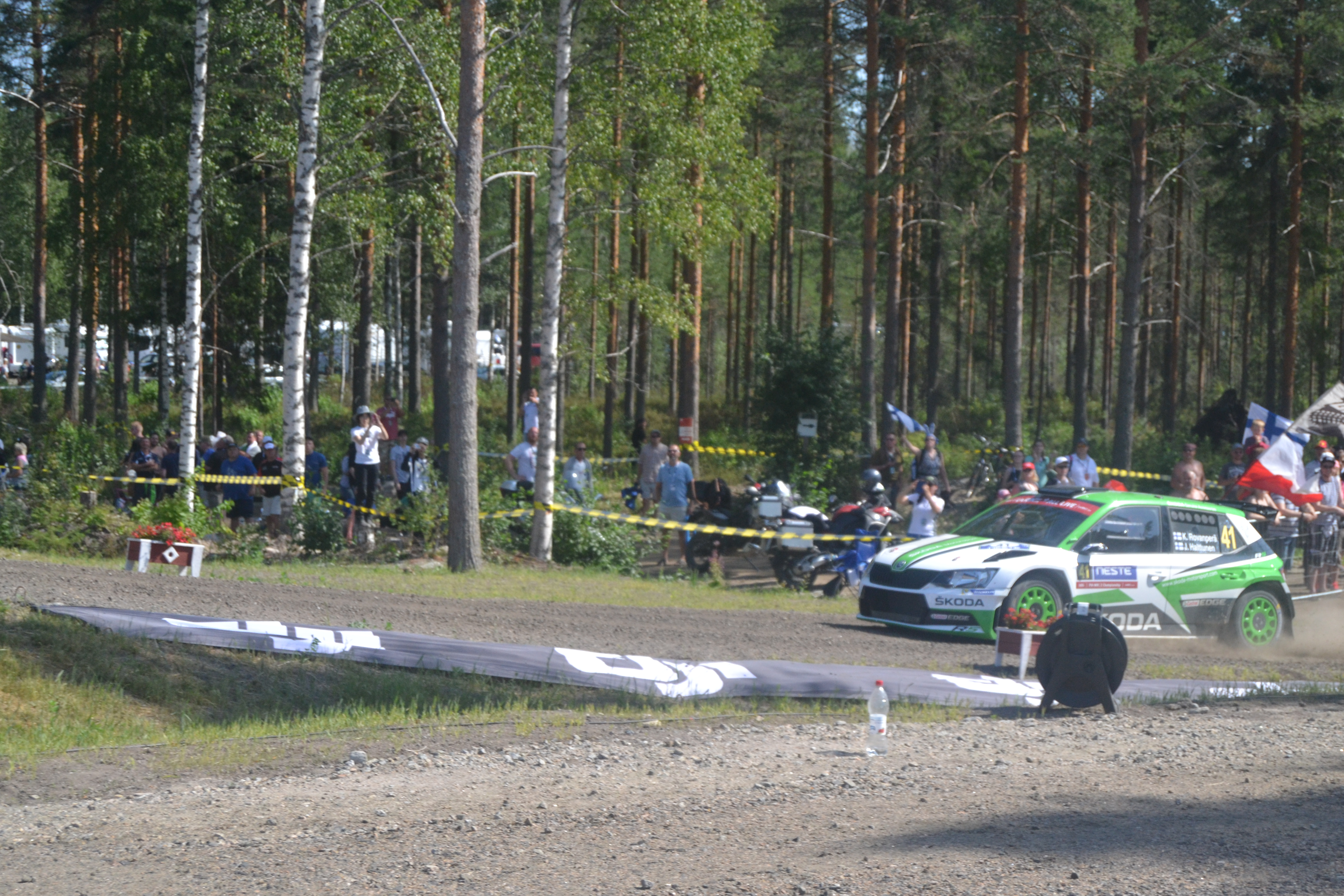 Kalle Rovanperä at second Ruuhimäki stage at Rally Finland 2018